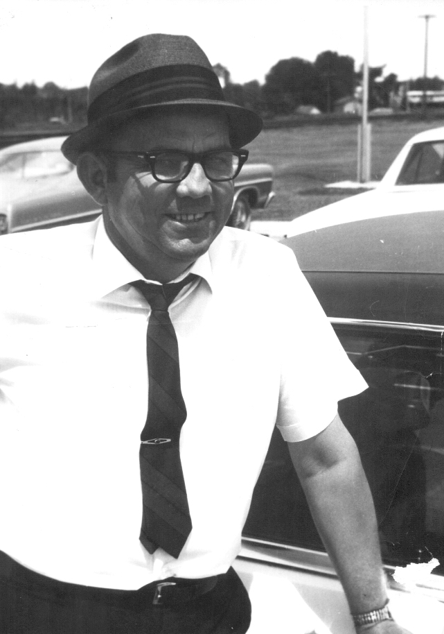 Leo Heikkinen inventor of the world famous Prentice knuckleboom loader in Prentice, Wisconsin